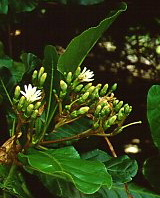 Anthocleista grandiflora